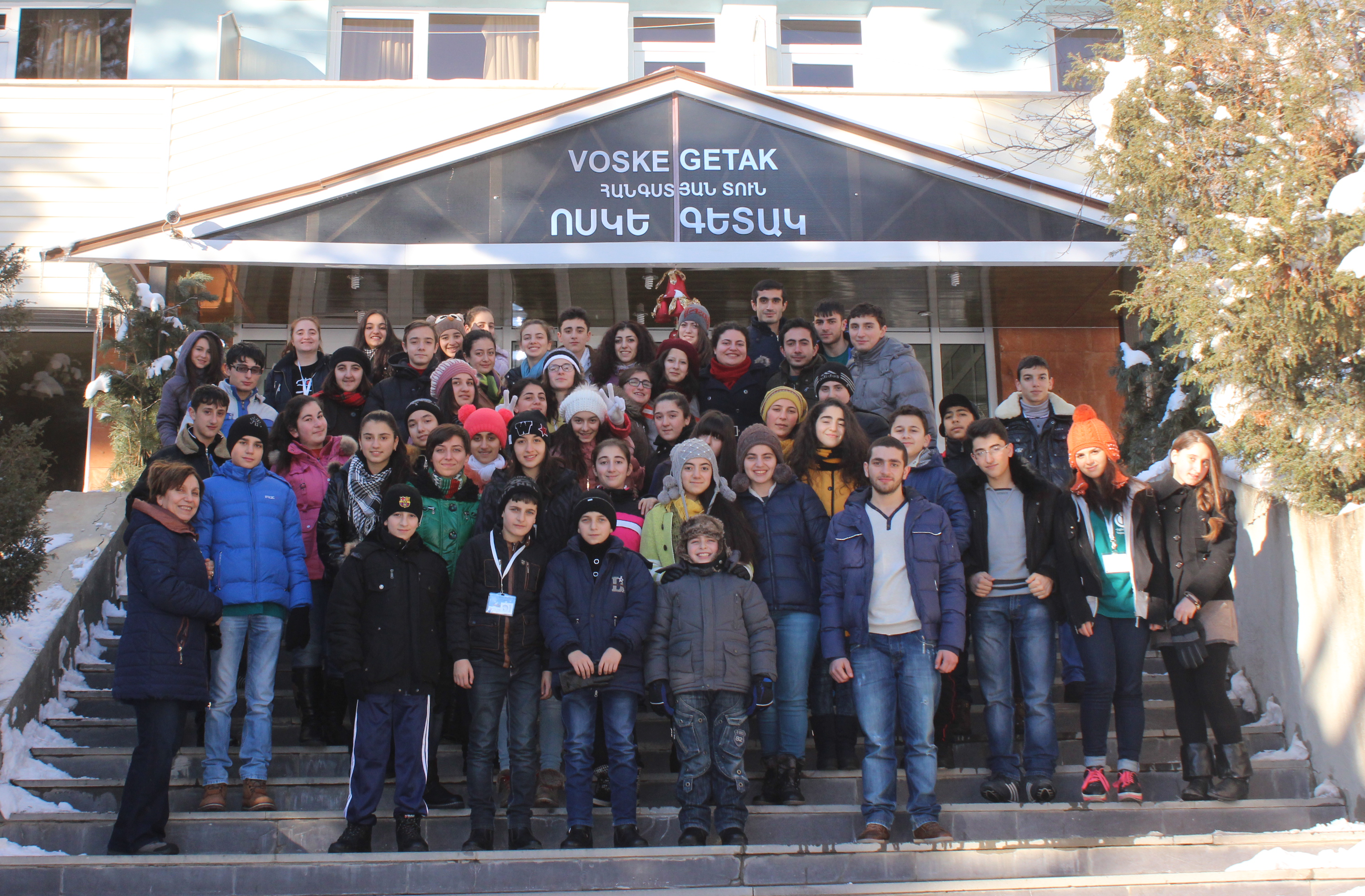 Armenia, Winter Wiki Camp 2015 group photo